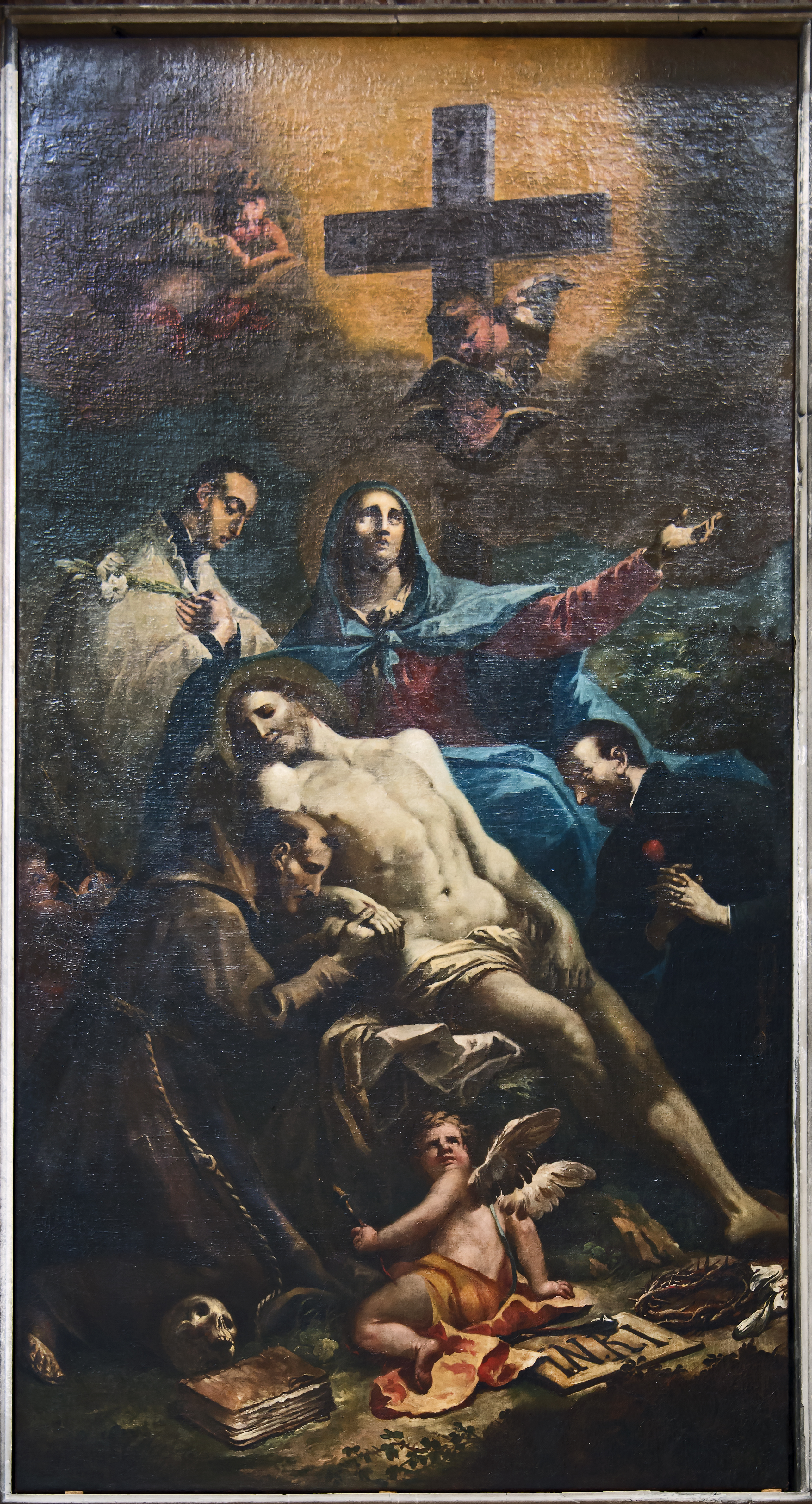 Descent from the Cross San Geremia, Venice - the left side, the second altar